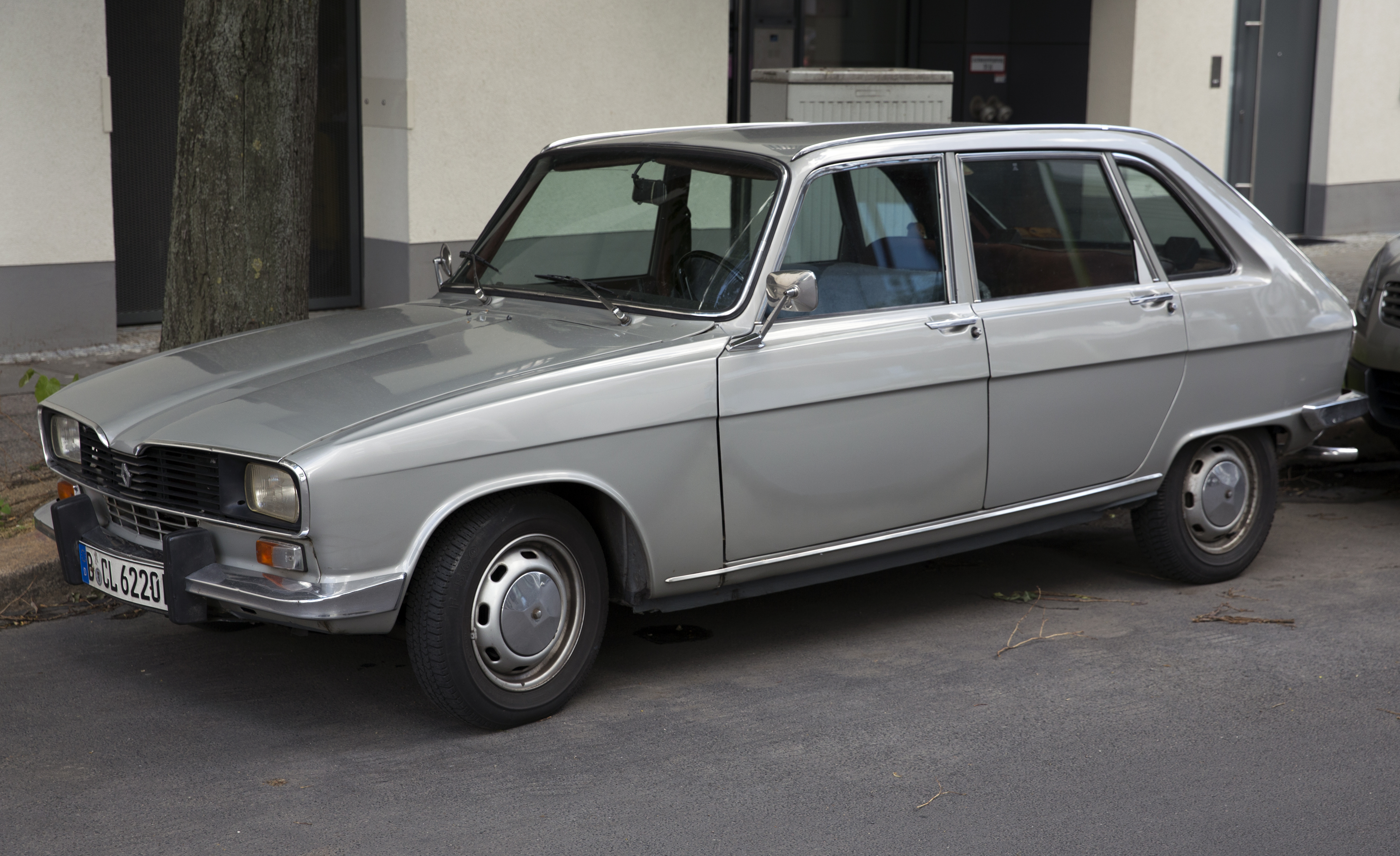 A 1975 Renault 16 TL in Berlin.